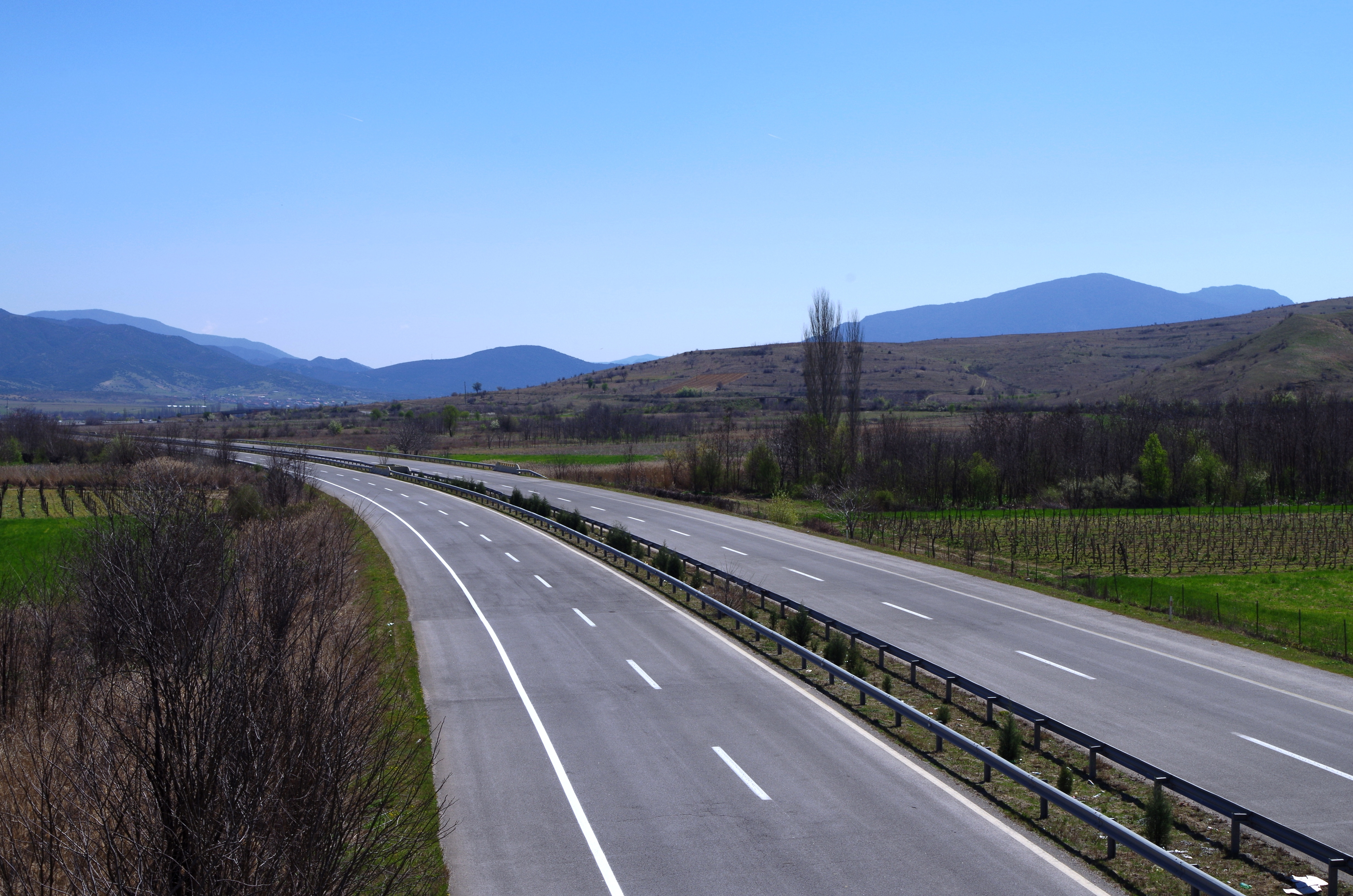 Part of the motorway E75 in Macedonia - section Negotino-Demir Kapija